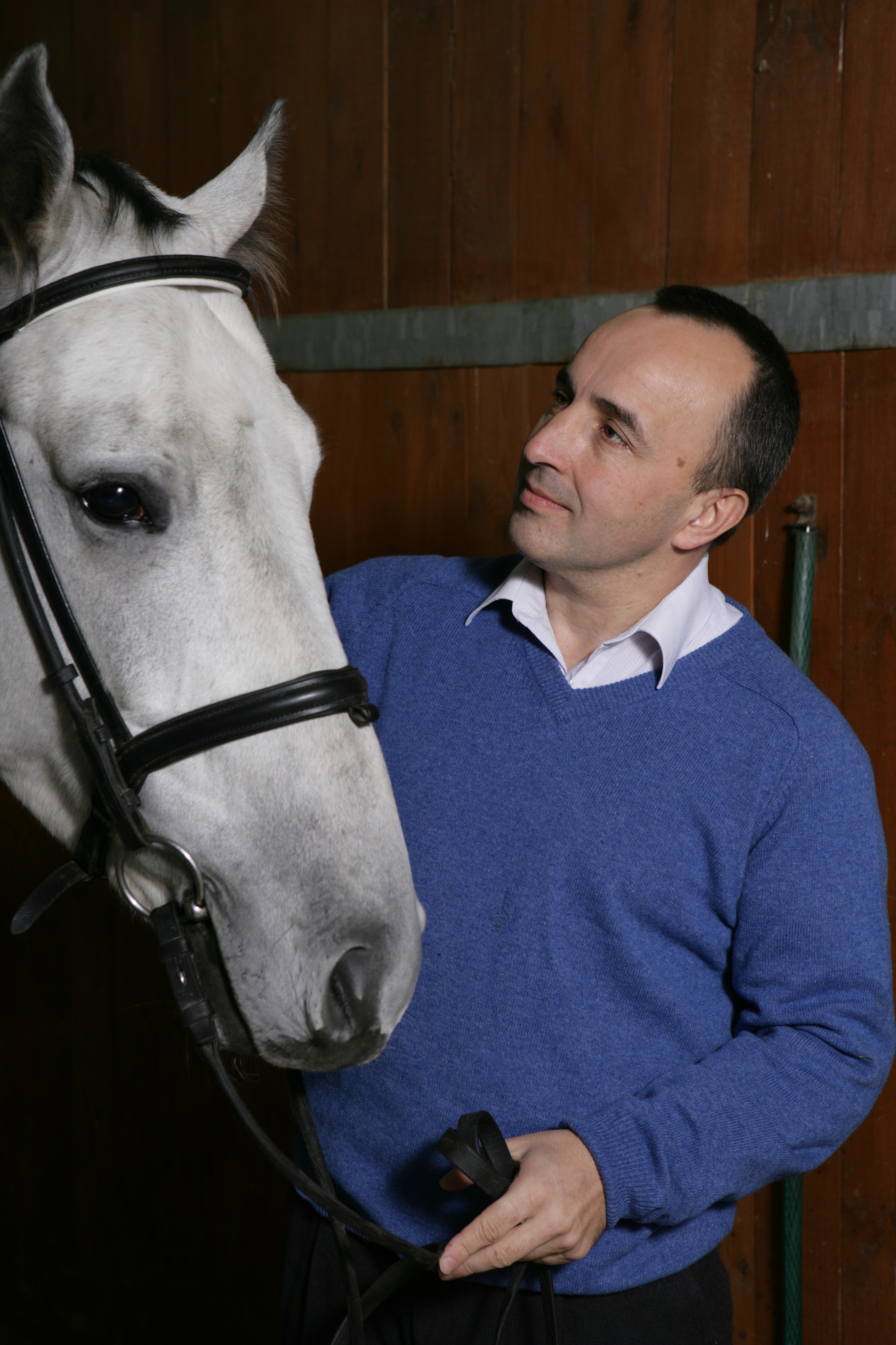 Kovac Milomir